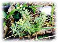 Galium californicum ssp. sierrae BLM photo